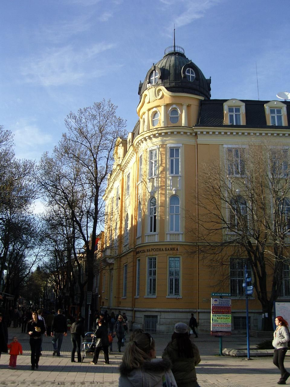 Bank building in Pleven, Bulgaria